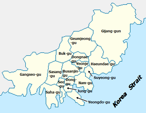 The names of the districts of Busan are labeled on the map of the city.